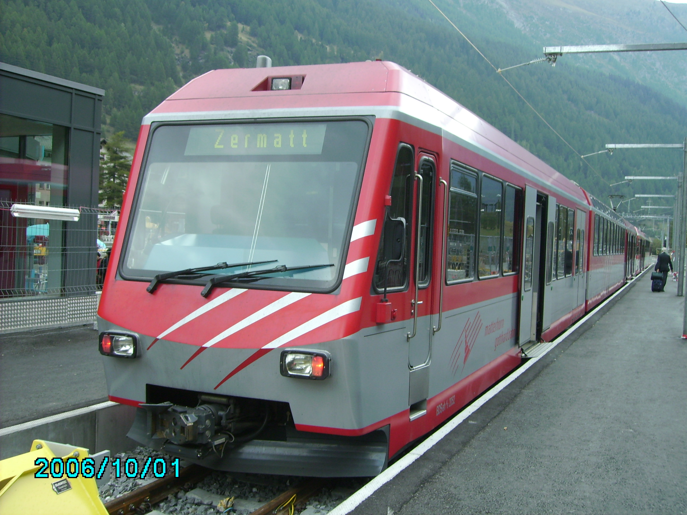 Shuttle train BDSeh 4/8 of the Matterhorn–Gotthard-Bahn in Täsch, Valais, Switzerland